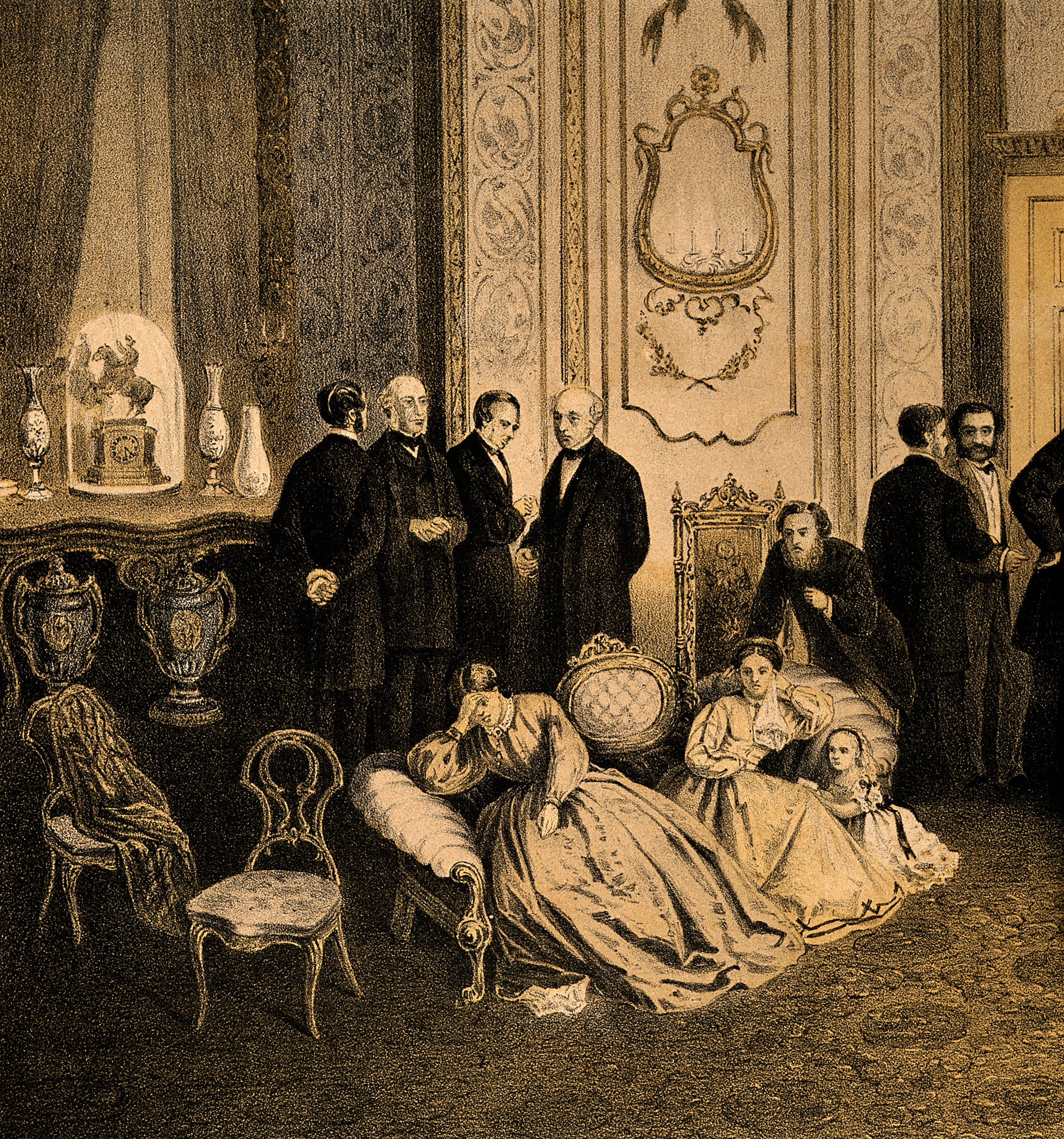 Physicians attending at the death of Albert, Prince Consort. Detail of lithograph by W.L. Walton after Oakley, c. 1865. Iconographic Collections Keywords: William Jenner; Thomas Watson; Henry Holland; Oakley; W.L. Walton; James Clark